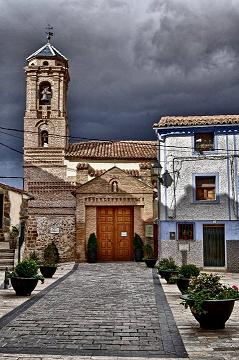 Foto de la plaza de Lituénigo